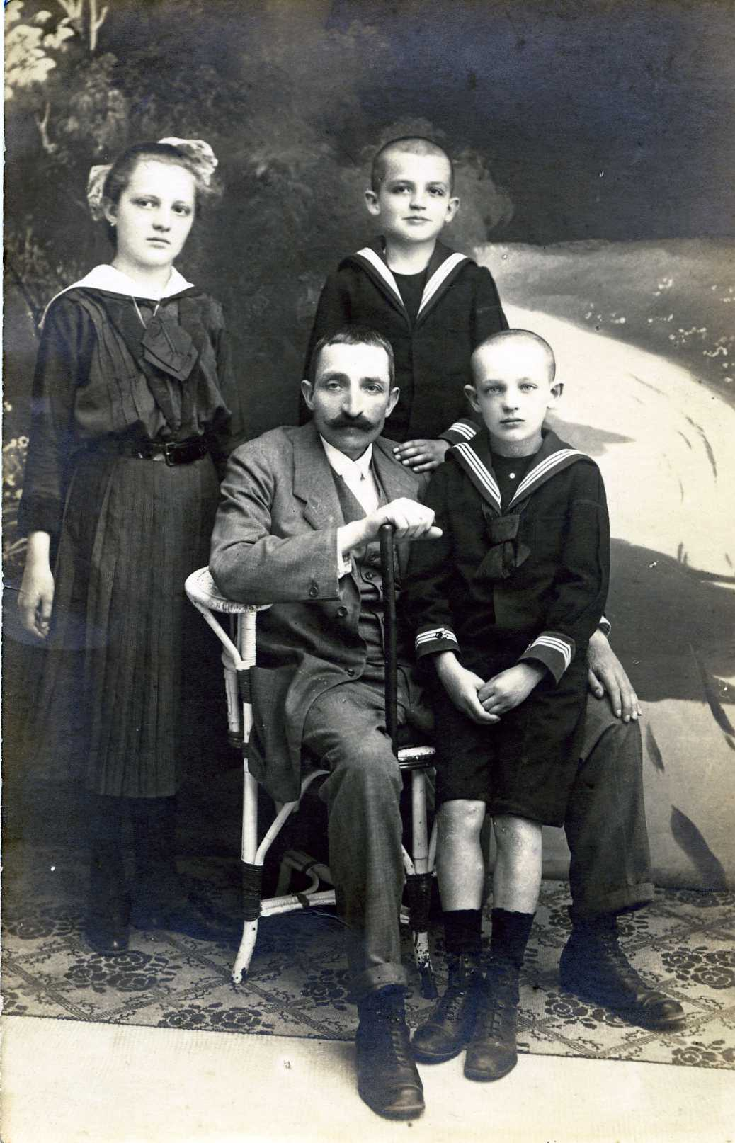 dr. István Farkas de Boldogfa (1875-1921), chief magistrate of Sümeg, with his children, Margit, Endre and Gyula. Arround 1919.